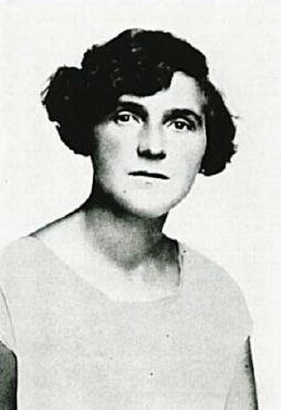 Tončka Čeč (1896-1943), Slovene communist and partisan